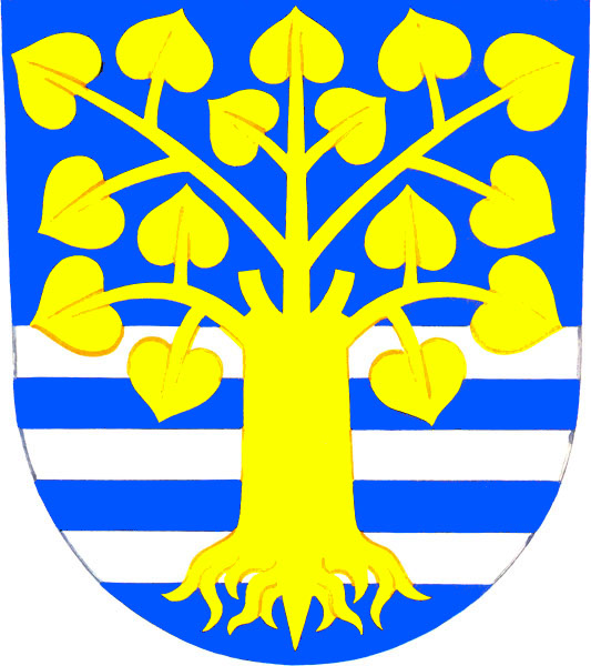 Municipal coat of arms of Poteč village, Zlín District, Czech Republic.